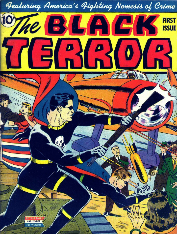 Black Terror #1, February 1943